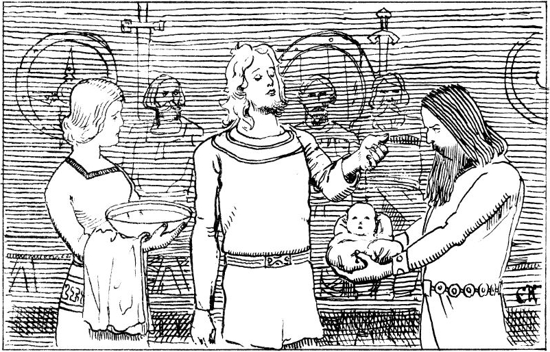 Christian Krogh: Illustration for Håkon den godes saga, Heimskringla 1899-edition.